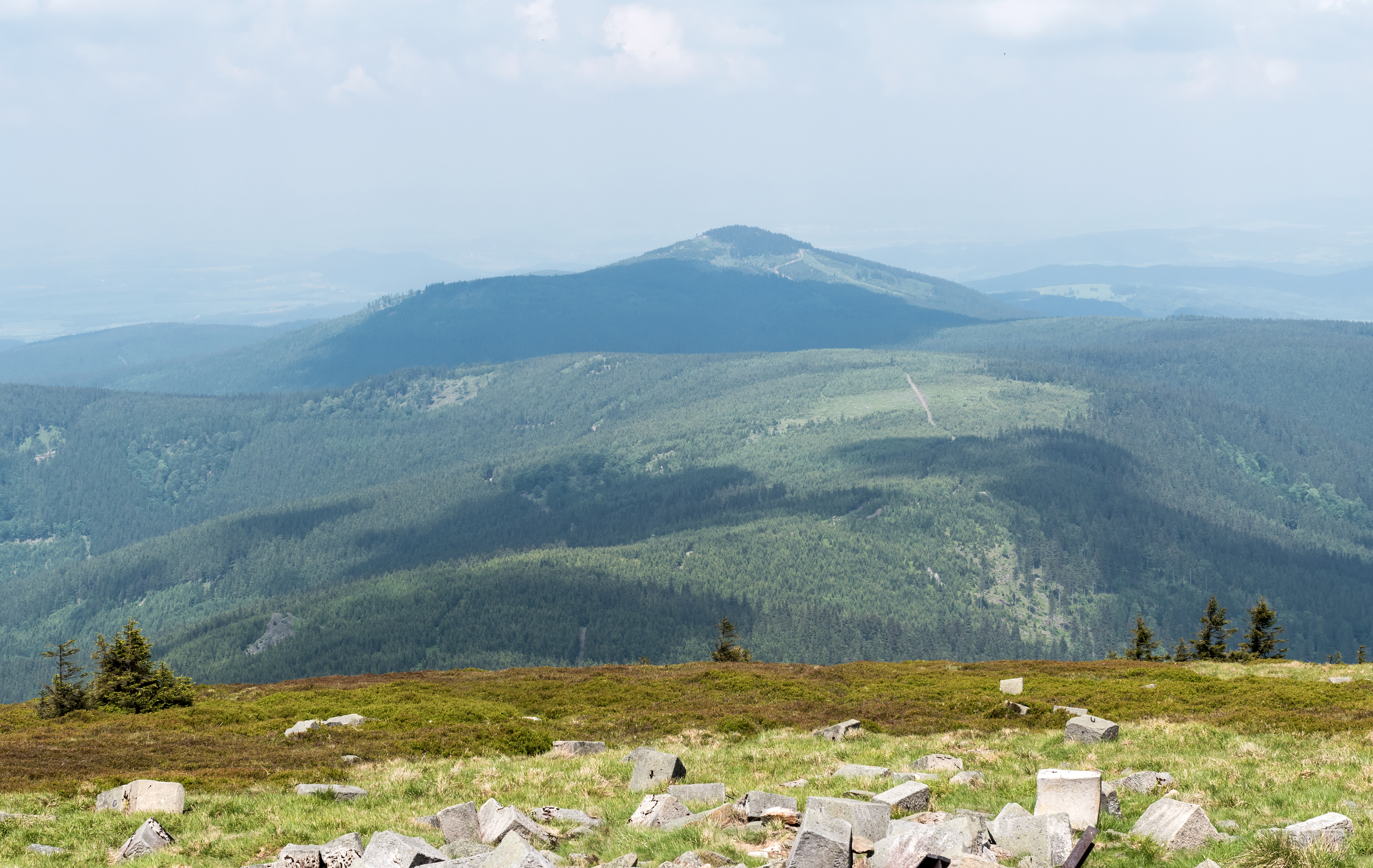 Żmijowiec and Czarna Góra, Śnieżnik Mountains, Sudetes